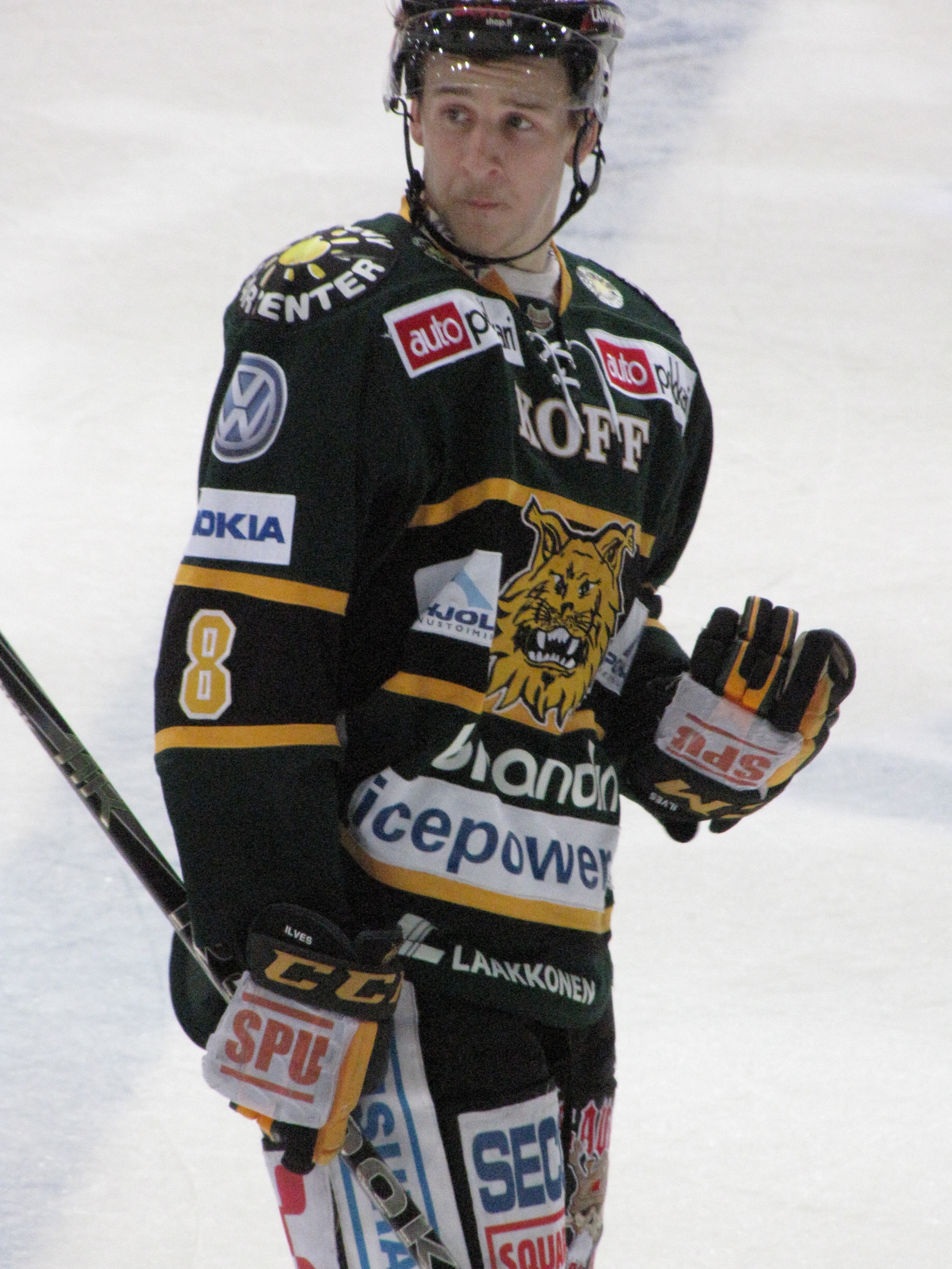 Finnish ice hockey defenceman Niko Peltola playing for Tampere Ilves in an SM-liiga relegation game in March, 2012.